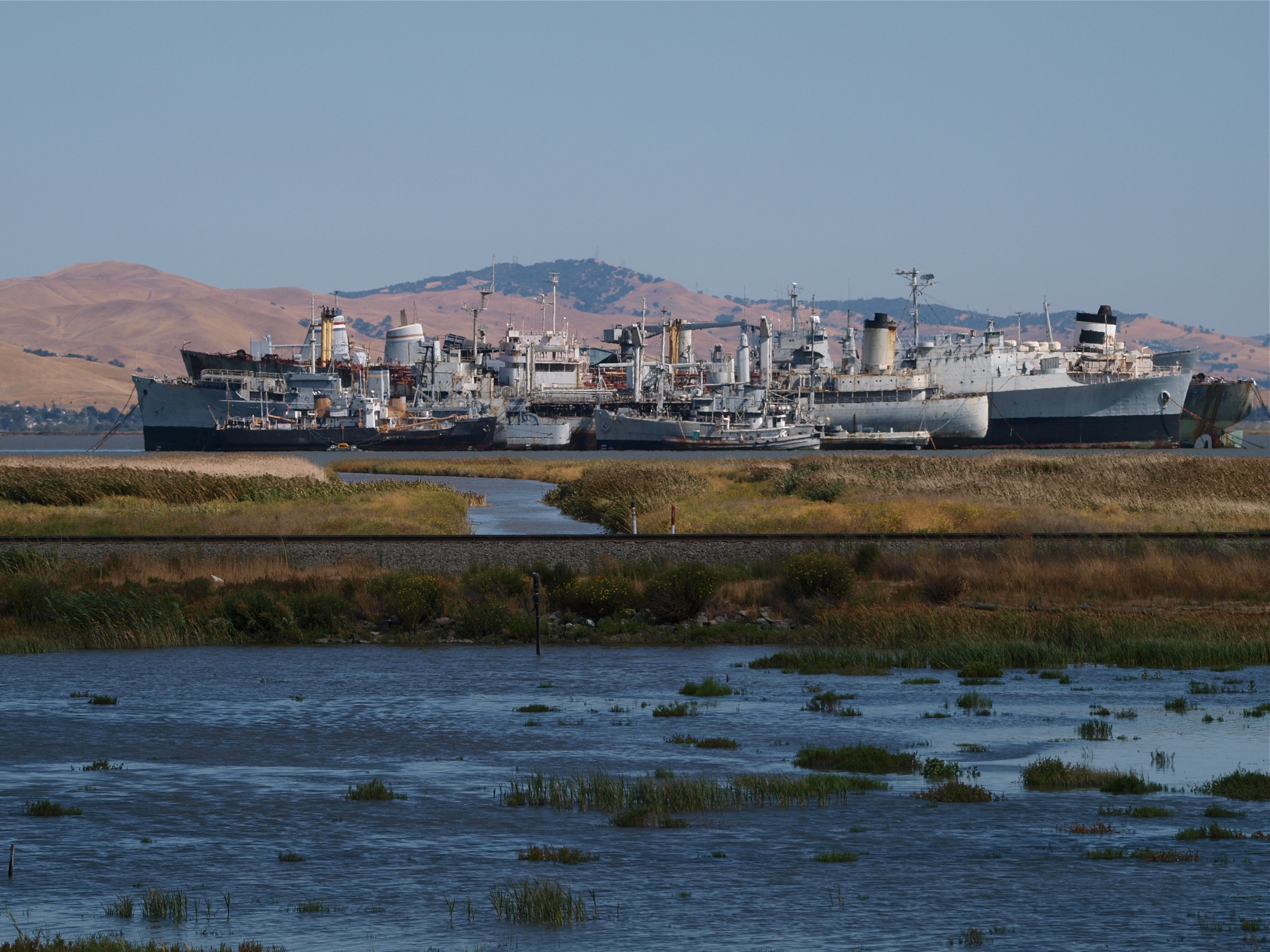 Suisun Bay is famous for hosting the anchorage of the ghost or mothball fleet, a collection of U.S. Navy and merchant reserve ships, created in the period following World War II. Many of these ships were removed for sale as scrap metal during the 1990s, but over 80 ships still remain at anchor in the bay including the WWII battleship USS Iowa (BB-61).